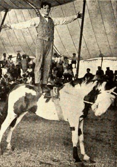 Still from the American comedy film Under the Top (1919) with Fred Stone, on page 26 of the July 27, 1918 Exhibitors Herald.